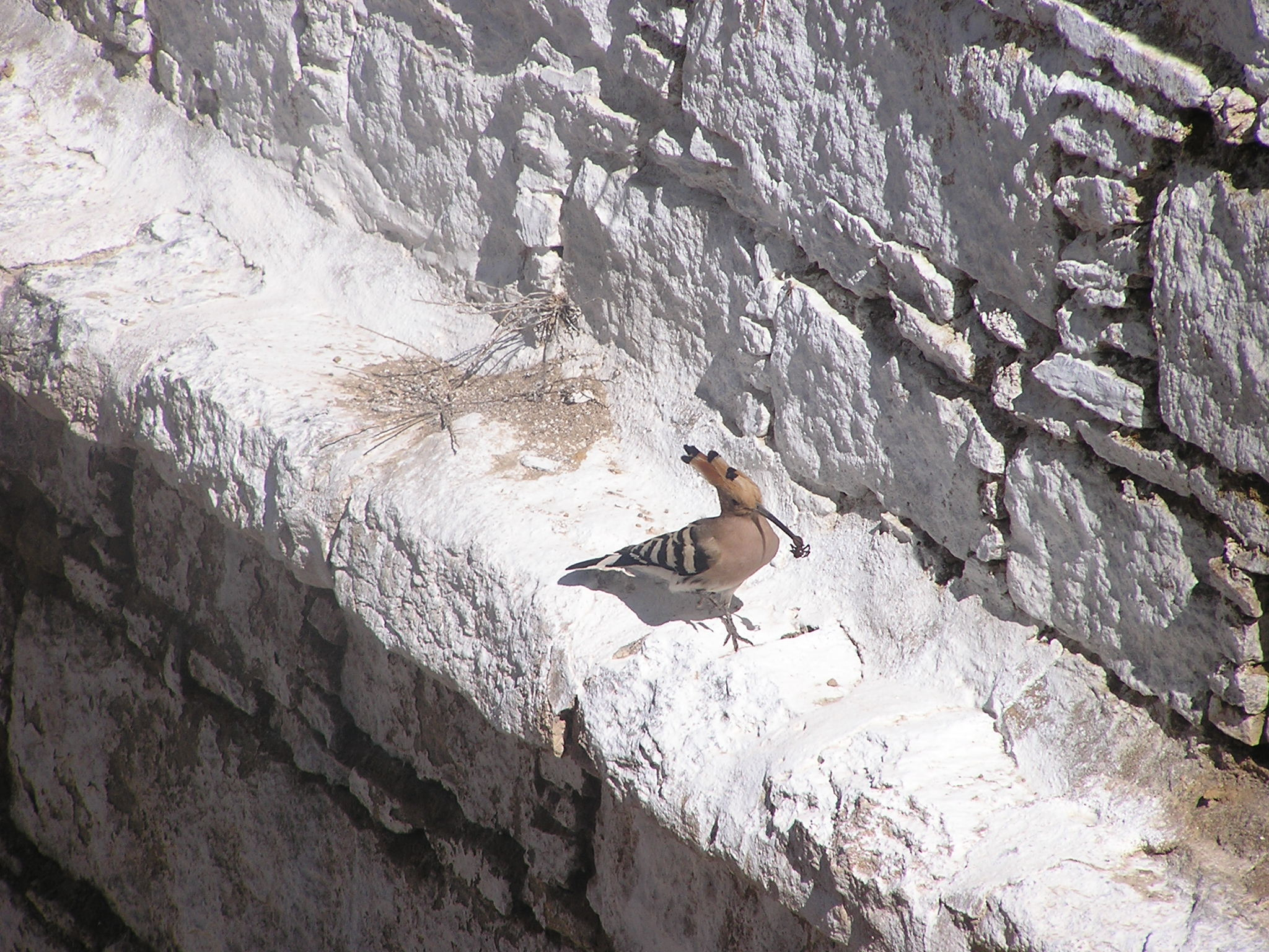 Ganden Monastery 12.